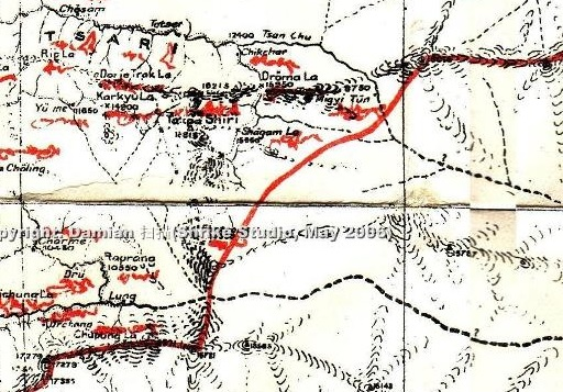 This is a cropped version of File:McMahon Line Simla Accord Treaty 1914 Map1.jpg, highlighting the Subansiri sector; the site of a Sino-Indian border conflict in 1960s